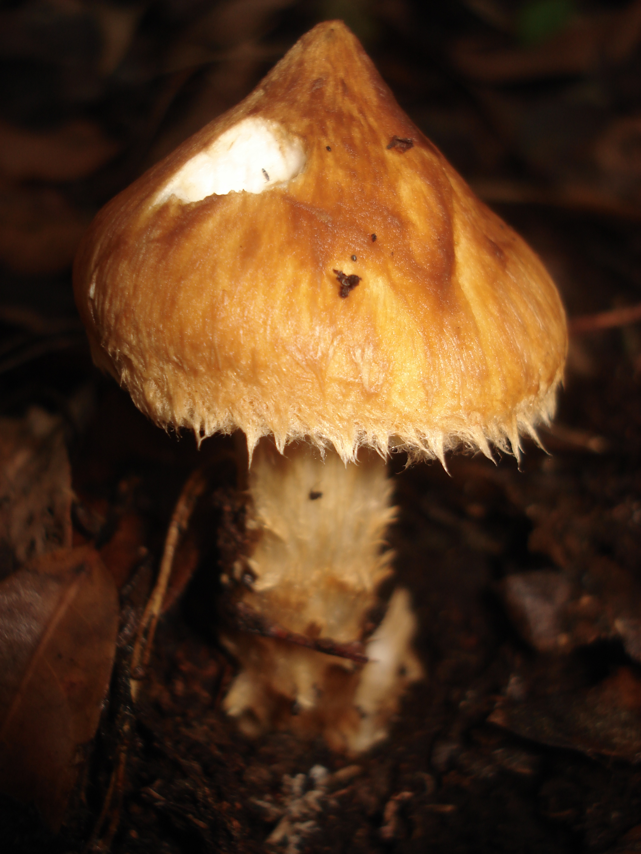 A fruit body of the fungus Squamanita umbonata (Sum.) Bas. Specimen photographed in Huayacocotla, Veracruz, Mexico.